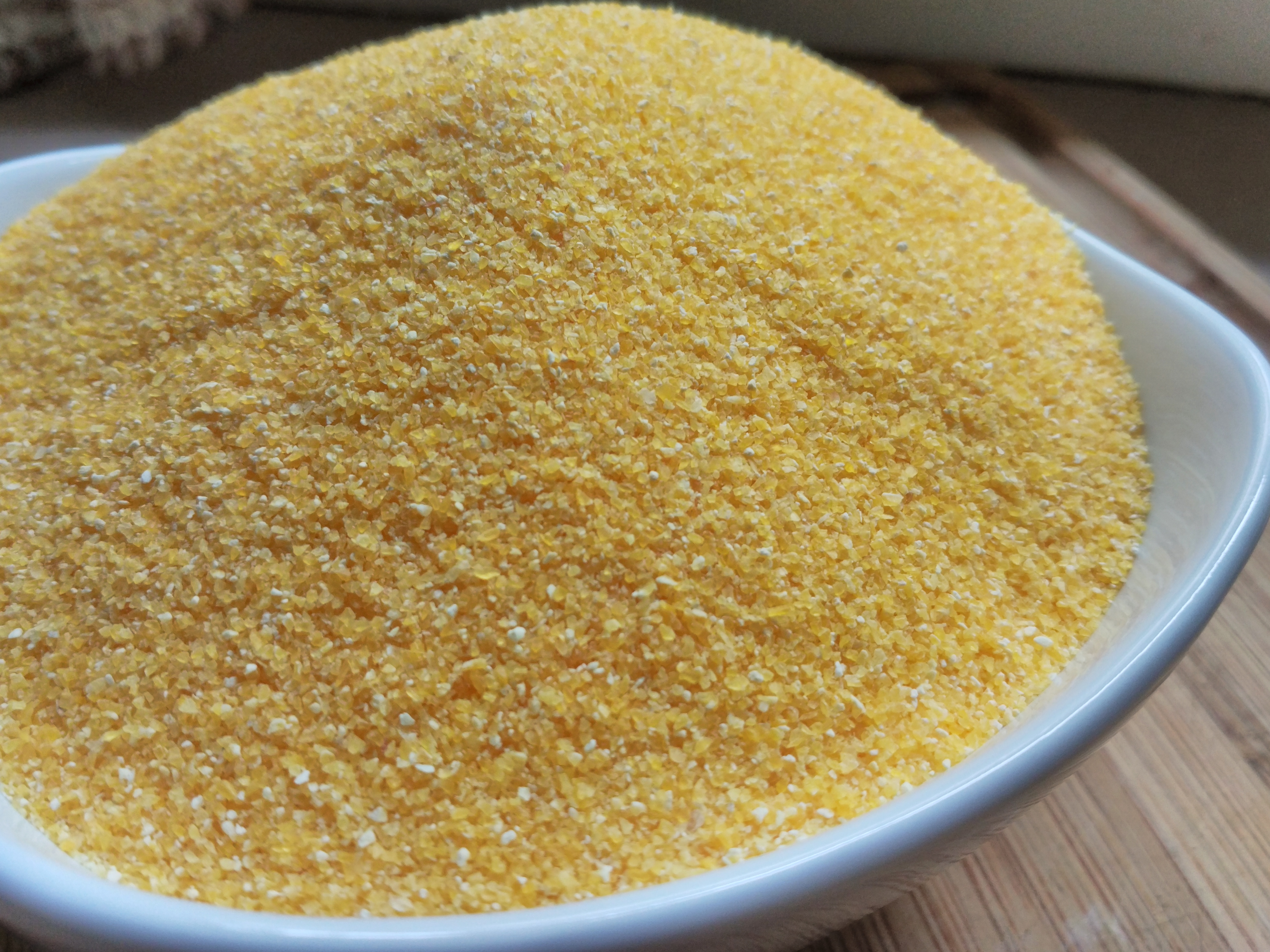 polenta (cornmeal) before cooking